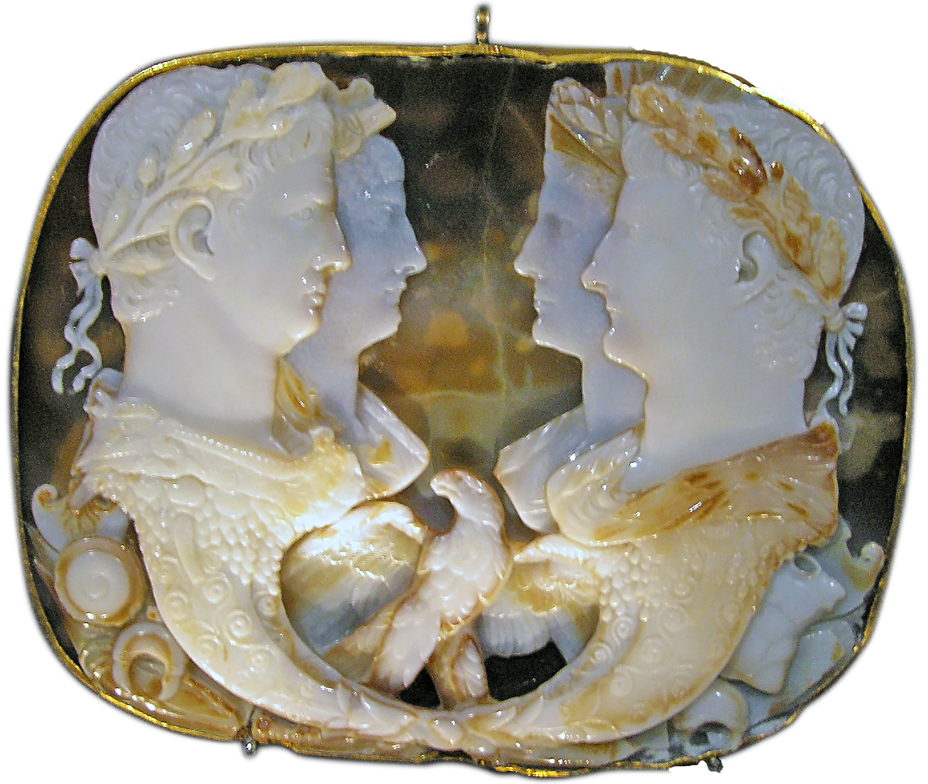 The Gemma Claudia, Roman, 49 C.E.(?). Five-layered onyx, height: 12 cm. Setting: gold rim. Inv.#. IX A 63. In the Collection of Greek and Roman Antiquities in the Kunsthistorisches Museum, Vienna. Depicts on the left side the Emperor Claudius and his fourth wife Empress Agrippina minor. Opposite the couple are the parents of Agrippina, Germanicus and Agrippina maior.